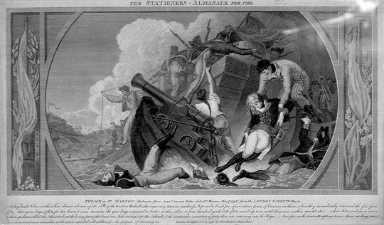 A British propaganda engraving of the French defeat at the Battle of St Marcouf in May 1798.